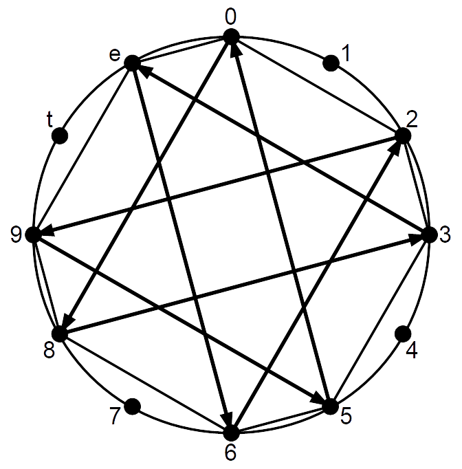 Circle of bisectors producing the octatonic scale.